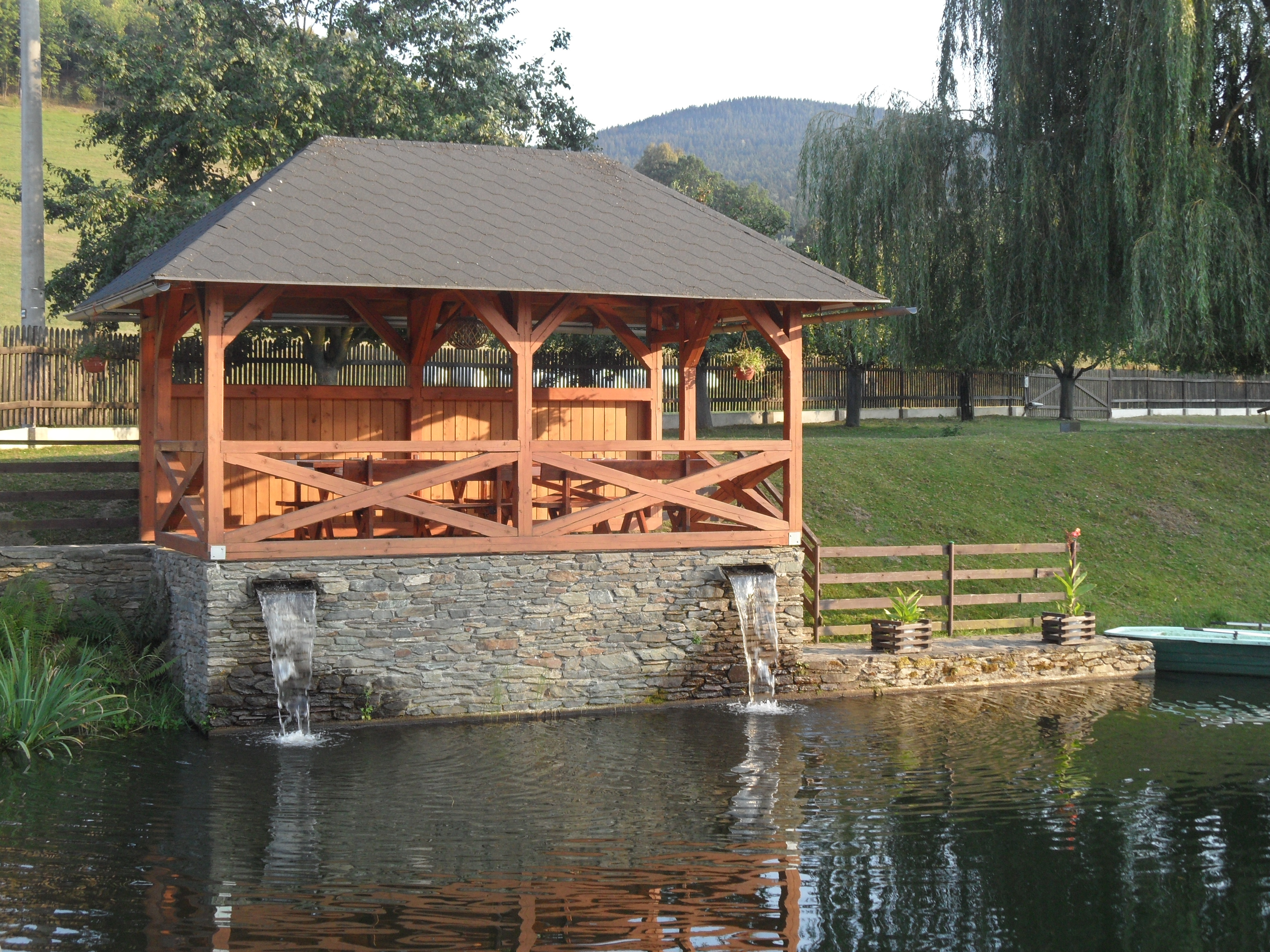 Rudoltice (Sobotín): Restaurant Rybářská bašta. Šumperk District, the Czech Republic